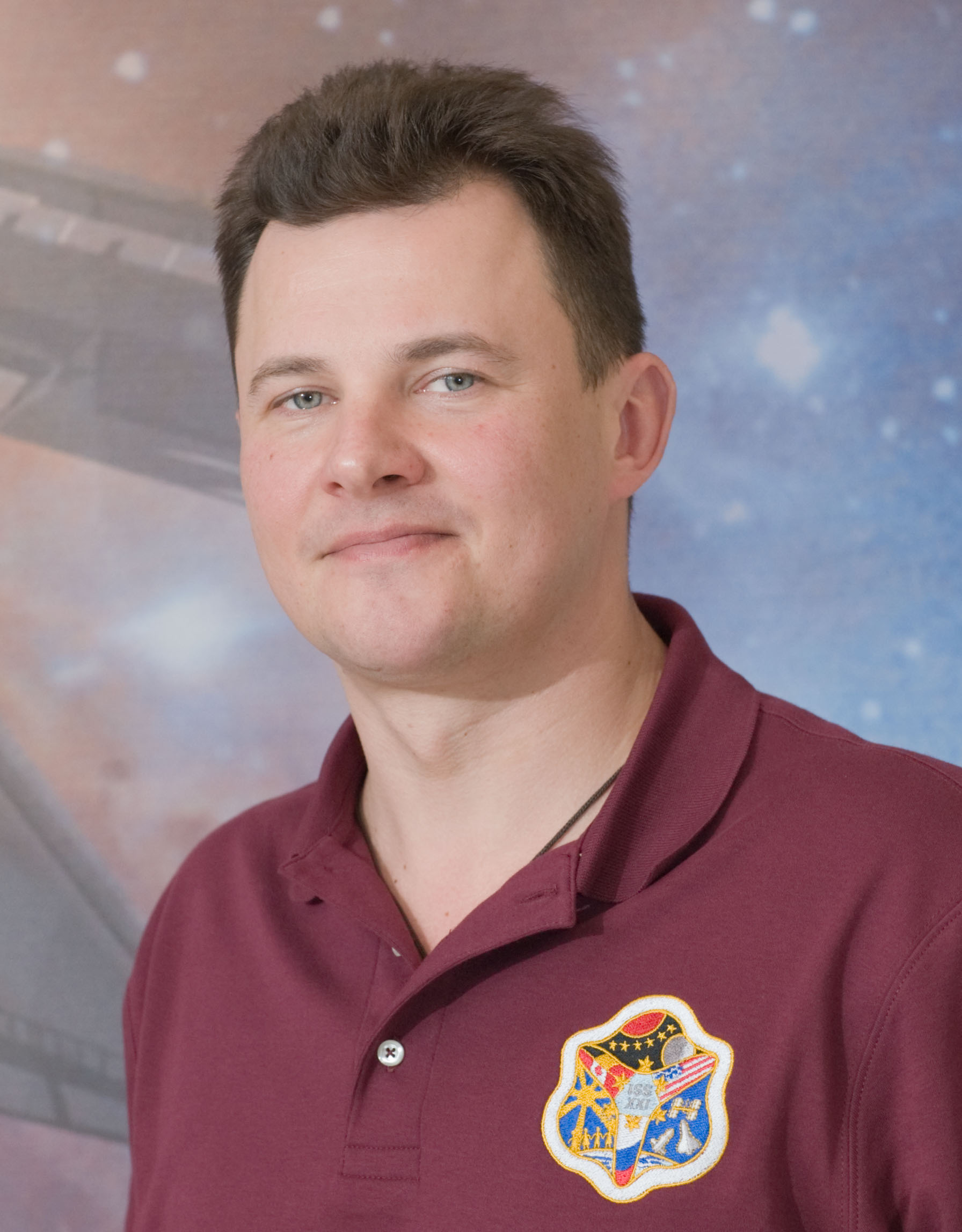 Cosmonaut Roman Romanenko, Expedition 20/21 flight engineer and Soyuz commander, poses for a portrait following an Expedition 20/21 preflight press conference at NASA's Johnson Space Center. Romanenko is scheduled to launch to the International Space Station aboard a Russian Soyuz spacecraft in May 2009.